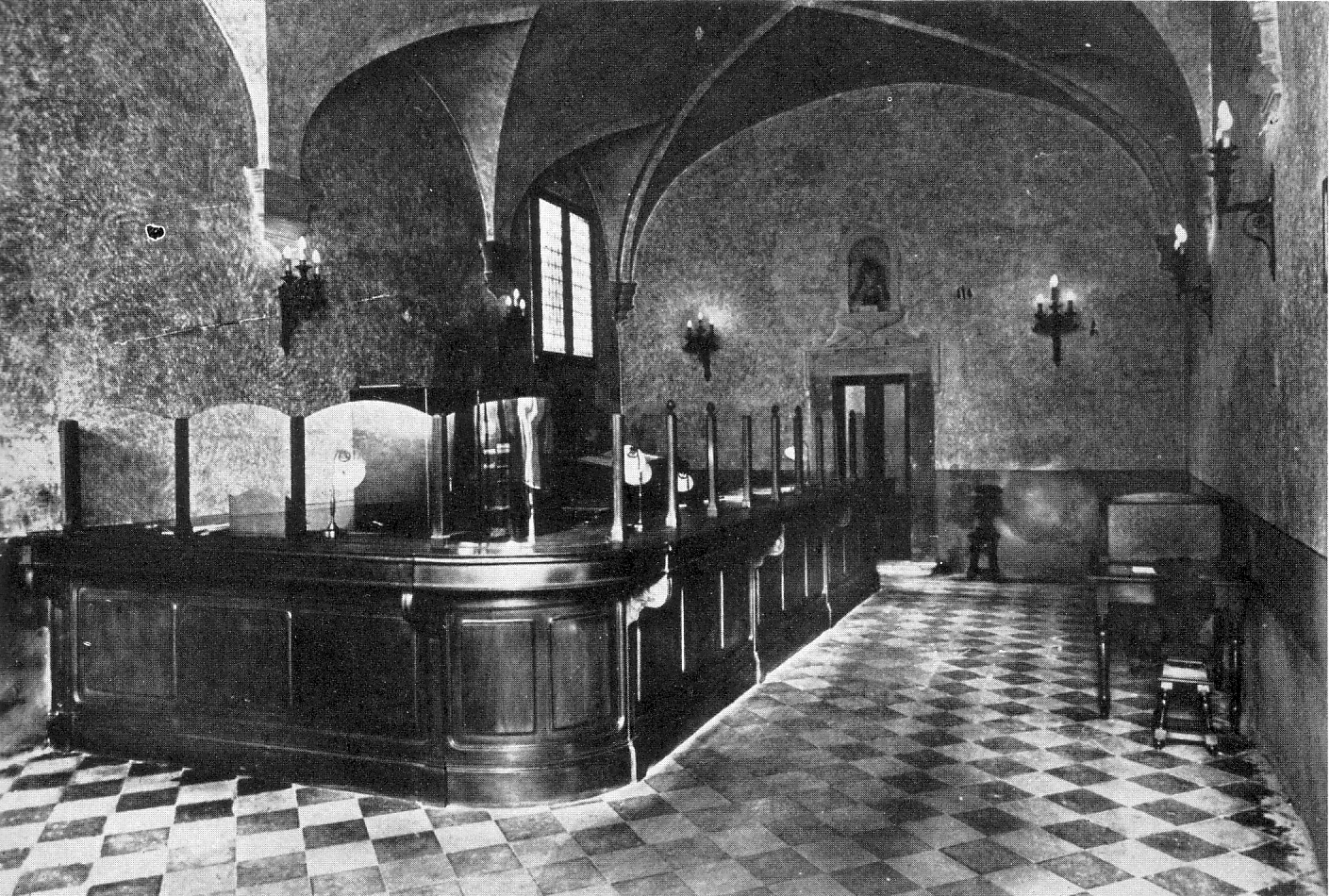 Interiors of Monte Pio when it was still a bank